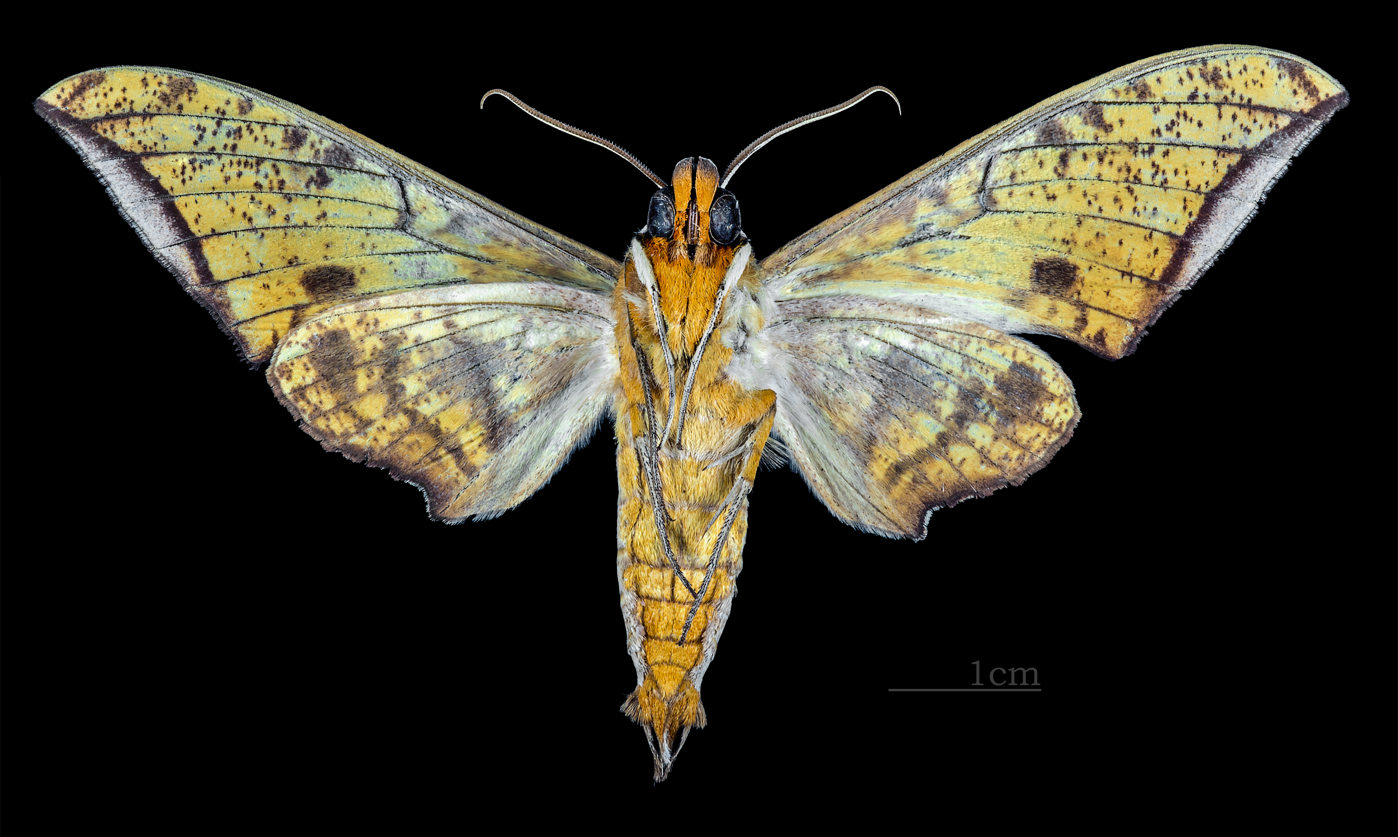 Ambulyx inouei - △ Ventral side Collection of the Mathematician Laurent Schwartz